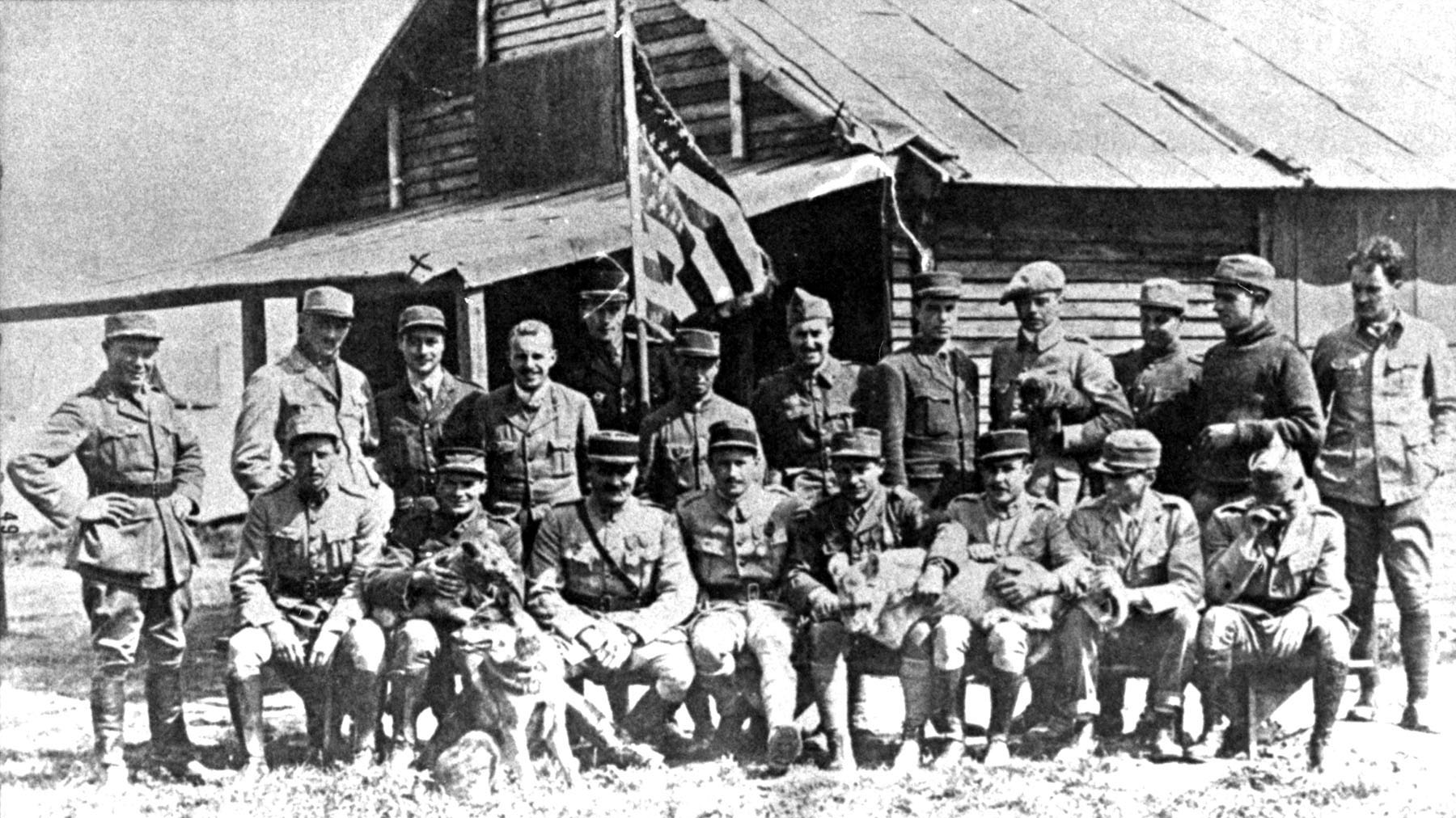 The pilots of SPA 124 Escadrille Lafayette on 10 July 1917 at Chaudun, France. Standing, left to right, are: Robert Soubiron, James Doolittle, Courtney Campbell, Edwin Parsons, Ray Bridgman, William Dugan, Douglas MacMonagle, Walter Lowell, Harold Willis, Henry Jones, David Peterson and Antoine de Maison-Rouge (French Deputy Commander). Seated, left to right, are Dudley Hill, Didier Masson with "Soda," William Thaw, Georges Thenault (the French Commander), Raoul Lufbery with "Whiskey," 'Chute' Johnson, Stephen Bigelow and Robert L. Rockwell. A historic image provided by the U.S. Air Force.